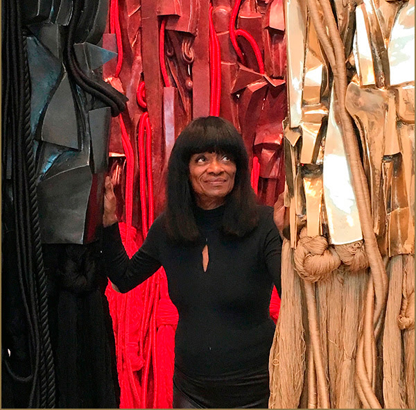 Barbara Chase-Riboud with her Malcolm X steles, Michael Rosenfeld Gallery